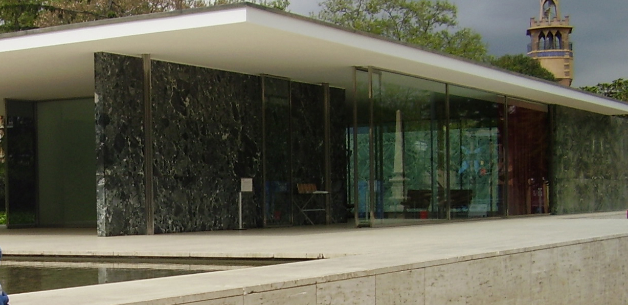 This photography was taken in Barcelona in April of 2005. I'm photography's author.